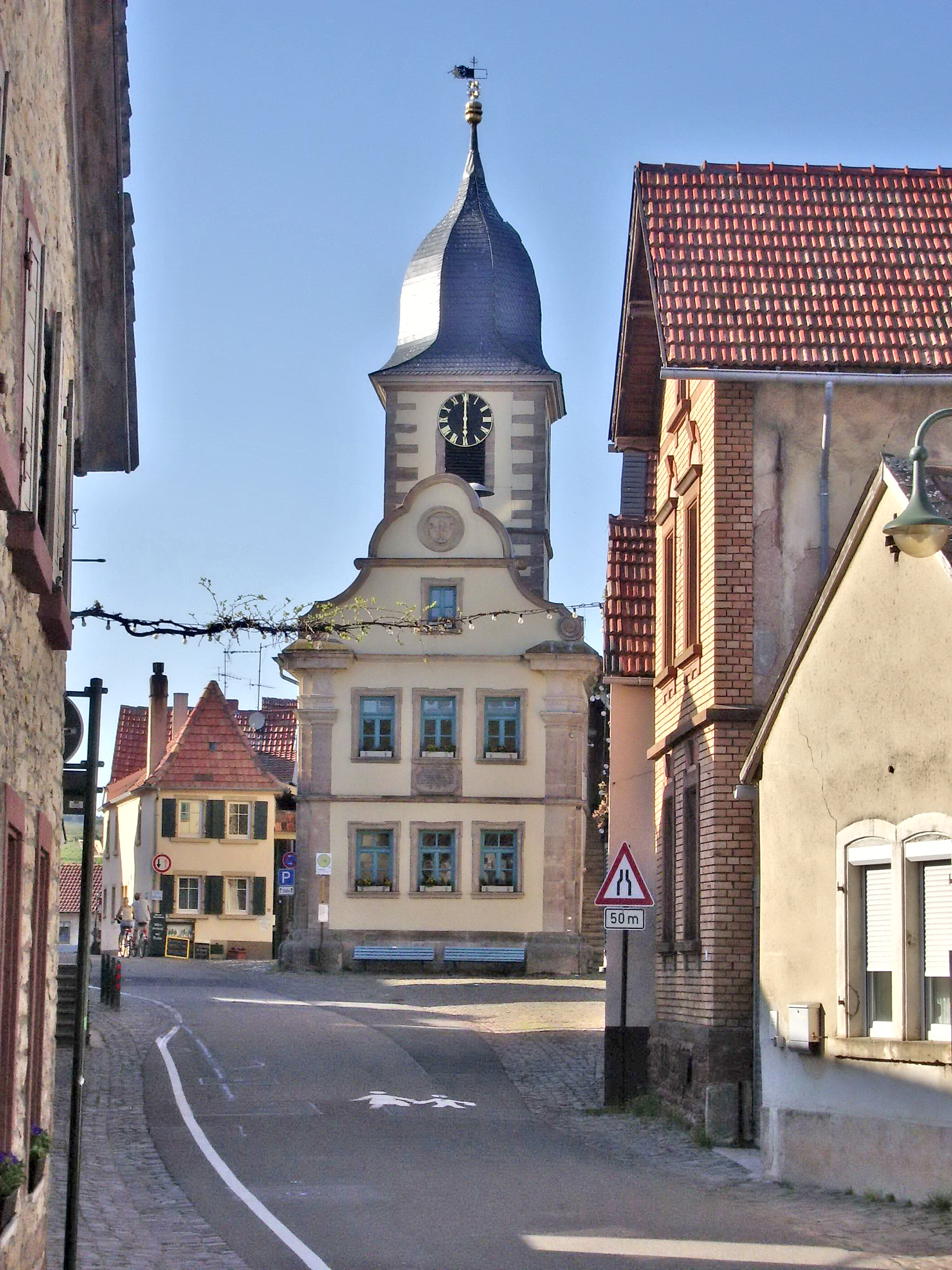 The "Altes Rathaus" of the village Leistadt (City of Bad Dürkheim) in Germany. The picture was taken on 2007-04-15 at 6 p.m. by myself. (Paul Henning)